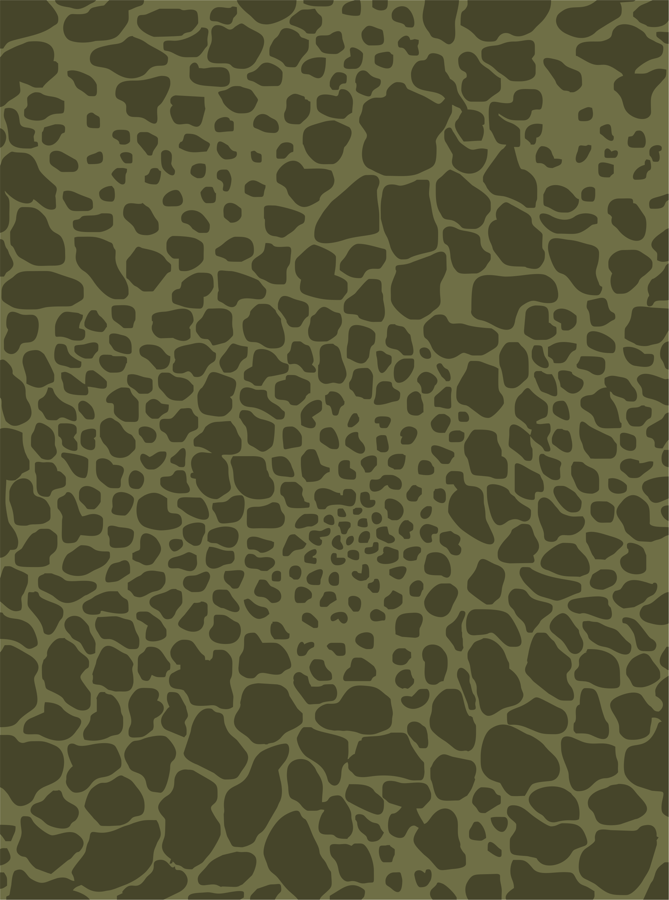 POL 89 Pattern Camo